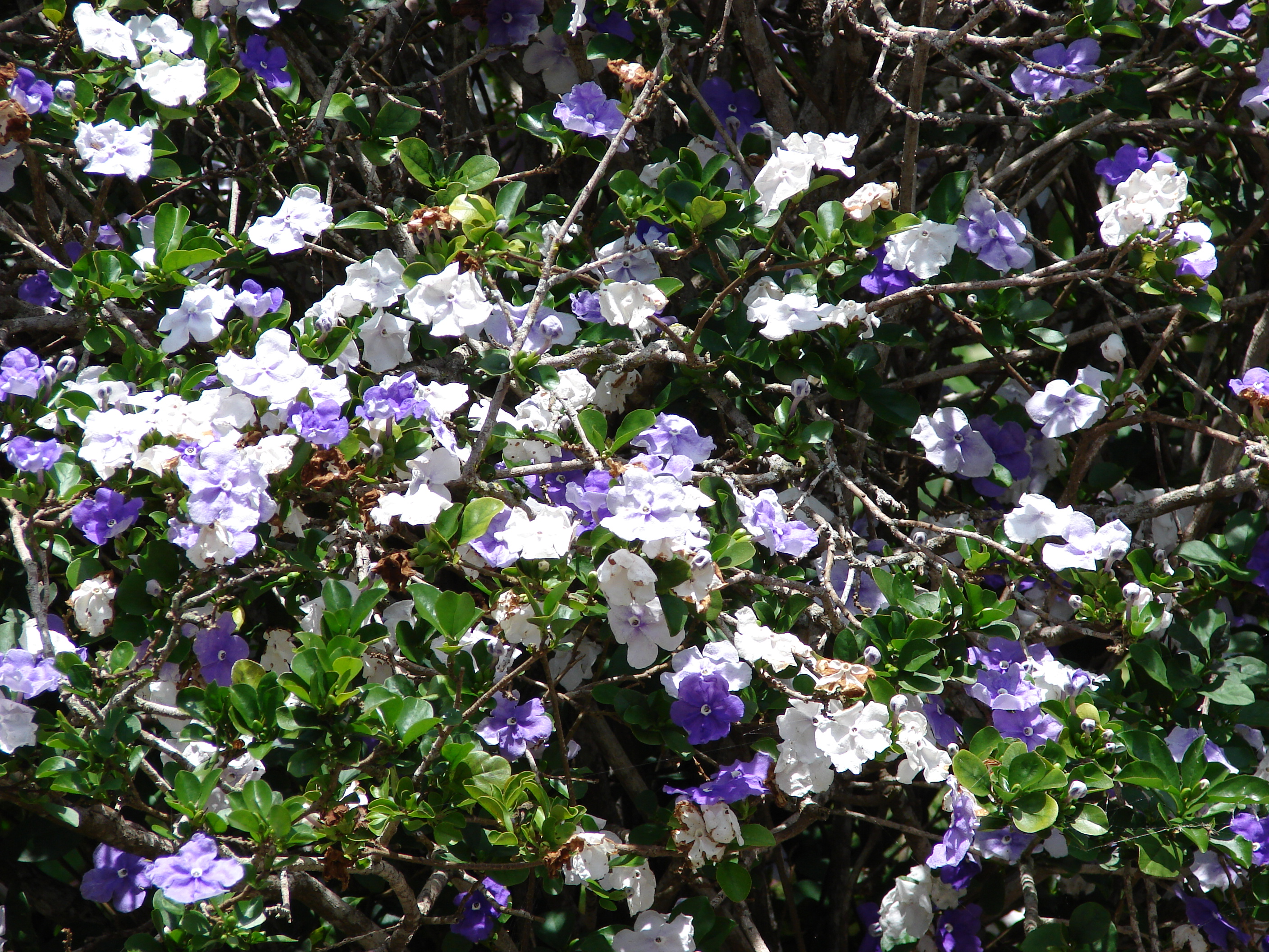 Brunfelsia australis (flowers). Location: Lanai, Lanai City